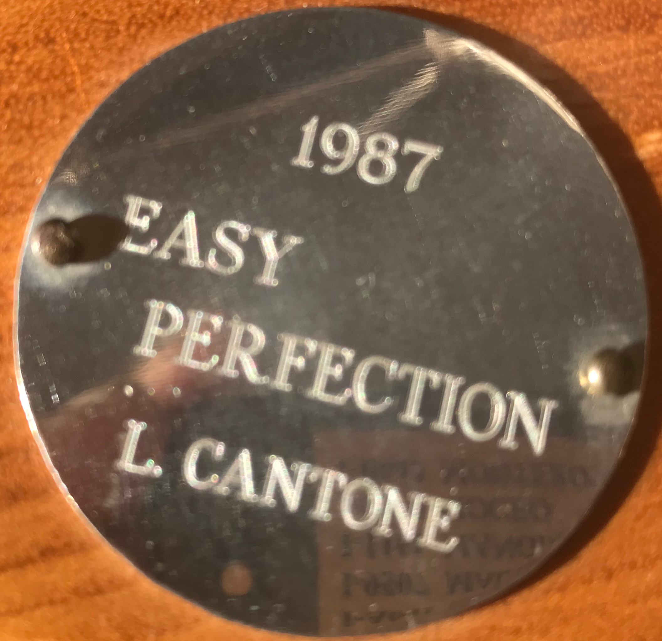 Patch on the trophy